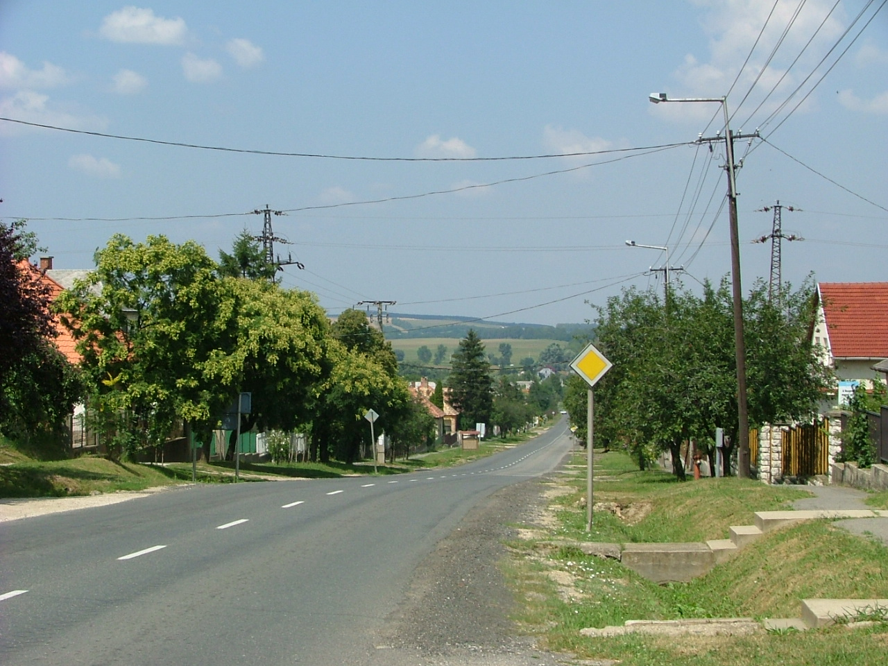 Veszprémvarsány, The Rákóczi street, part of the national main road no. 82.